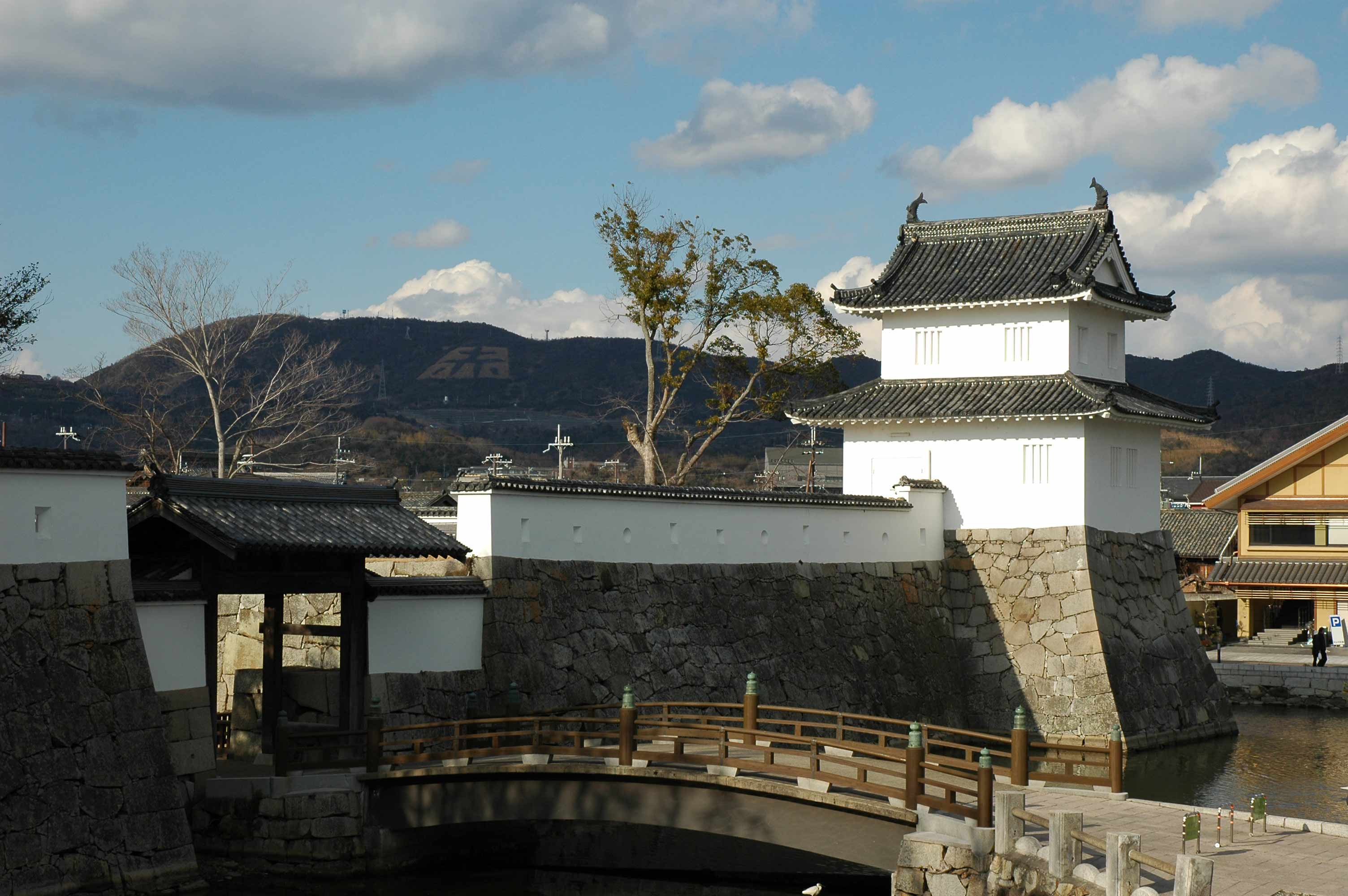 photo of Akō Castle Ohte-mon and Ohtesumi-yagura(rebuilding in 1955)